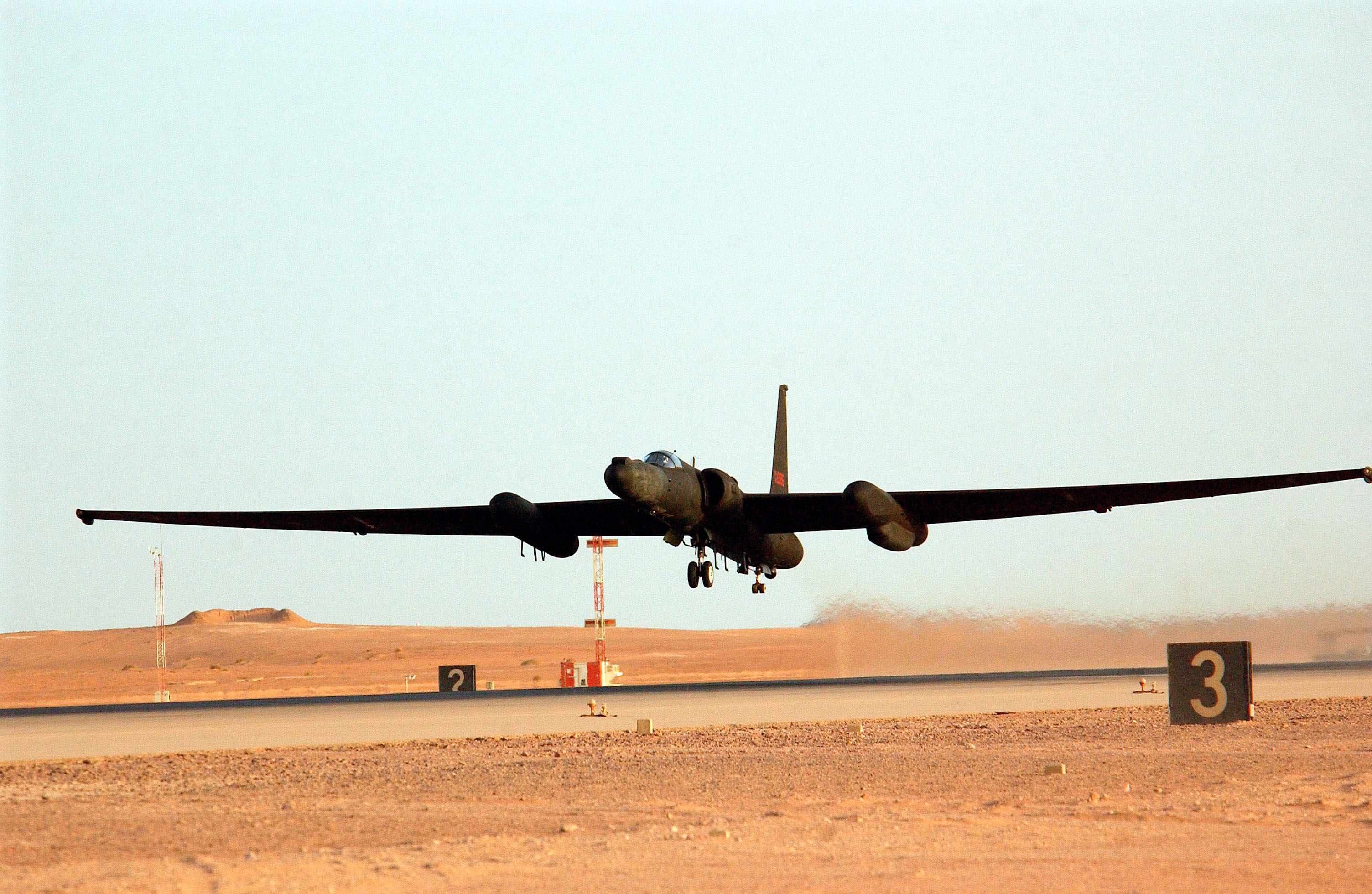 OPERATION IRAQI FREEDOM -- Lt. Col. Walter Flint, a deployed U-2 Dragon Lady commander from the 99th Reconnaissance Squadron, Beale Air Force Base, Calif., to the 363rd Expeditionary Reconnaissance Squadron, takes off for a mission on April 11, 2003. The U-2 is a high altitude-multi intelligence reconnaissance aircraft. It can fly above 70,000 ft and provides near-real-time imagery and signals intelligence to war fighters and national authorities in support of Operation Iraqi Freedom at a forward deployed location in Southwest Asia.